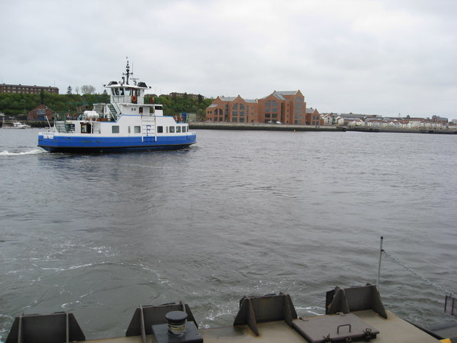 Pride of the Tyne seen leaving the North Shields side of the Shields Ferry passenger link across the mouth of the River Tyne, en route to South Shields.